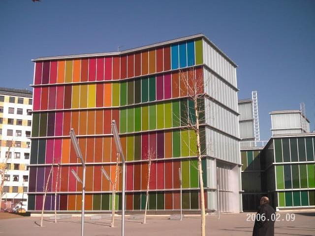 The MUSAC, detail of façade. The MUSAC by Mansilla+Tuñón.